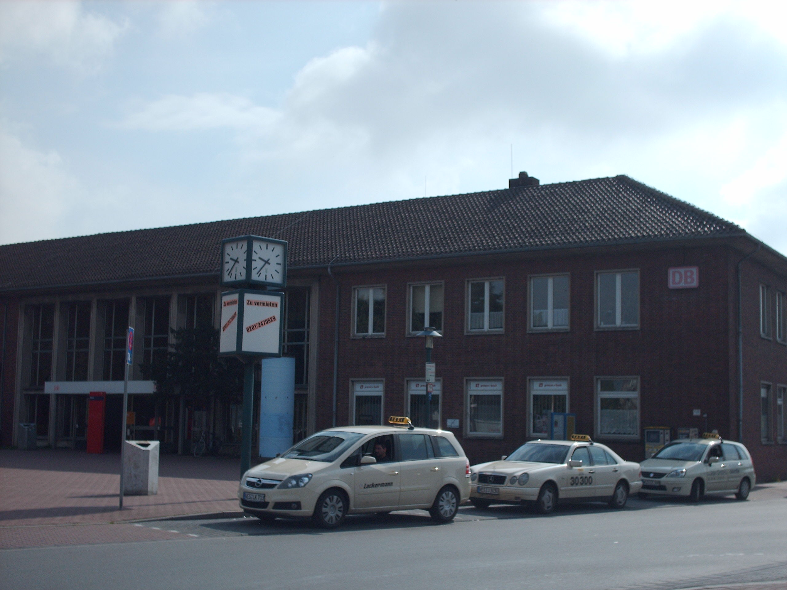 Wesel station, Wesel, Germany check usage